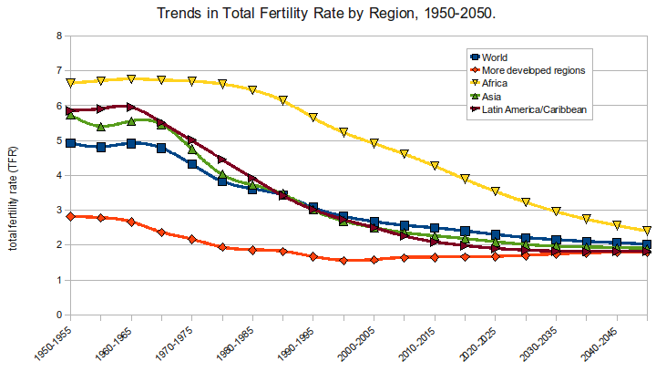 This is a chart showing trends in Total Fertility Rates by regions of the world from 1950-2050. The source of the data is the United Nations World Population Prospects, 2008.